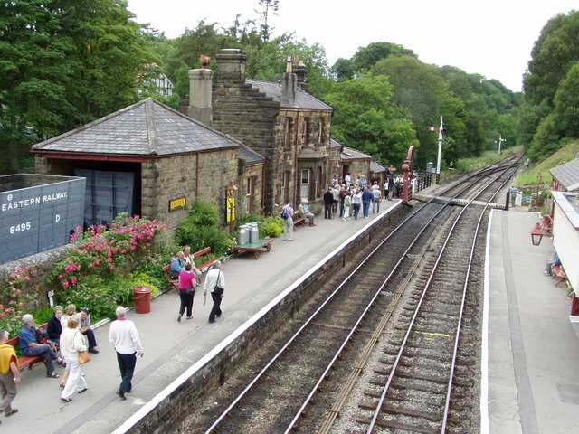 Goathland Station